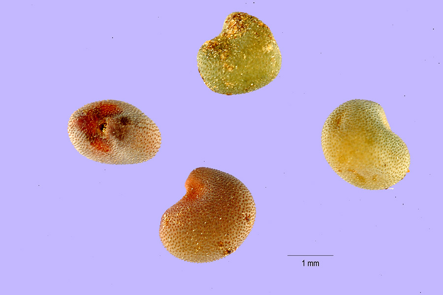 Ononis spinosa L. - spiny restharrow